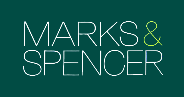 Logo of Marks & Spencer